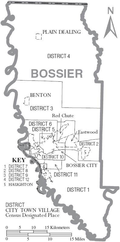 Map of Bossier Parish, Louisiana, United States with district and municipal boundaries